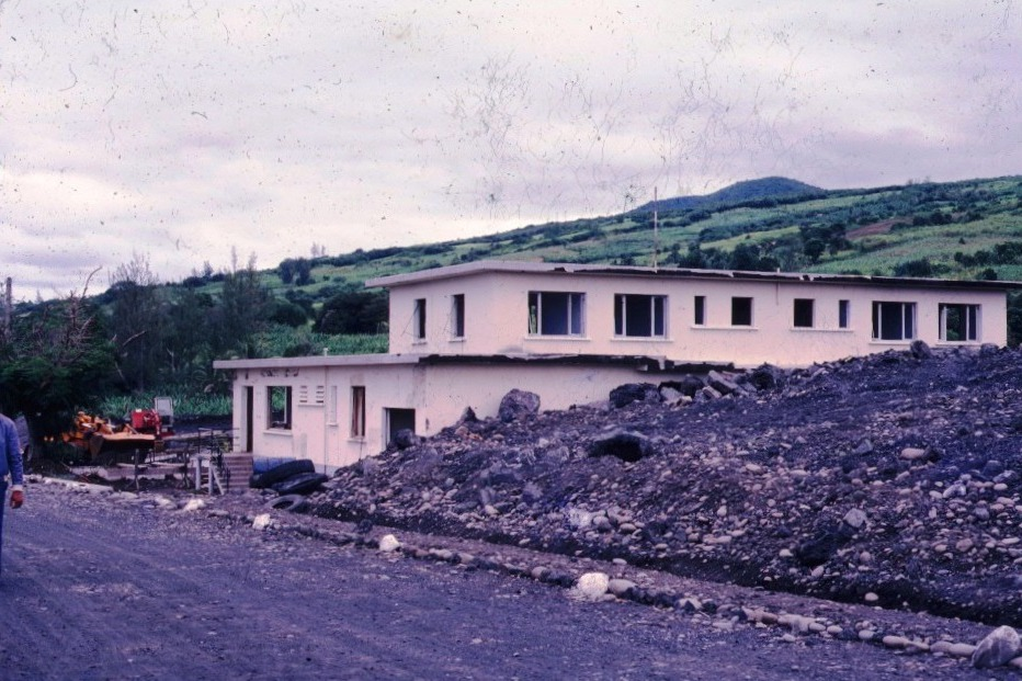 Lava flow damaging gendarmerie at Sainte-Rose, La Réunion, France.